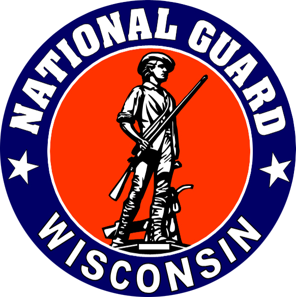 Logo of the Wisconsin National Guard.